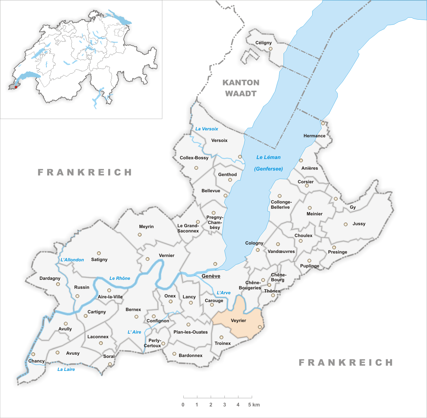 Municipality Veyrier